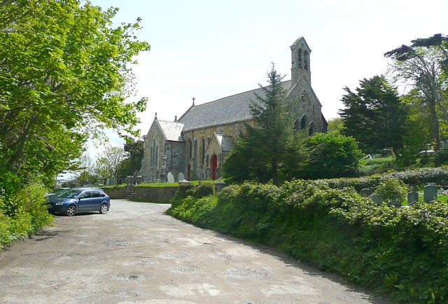 The Church of St Michael and All Angels, Bude Bude Haven became an independent EP in 1836, and the church was built by Wightwick in 1835 and enlarged in 1876.